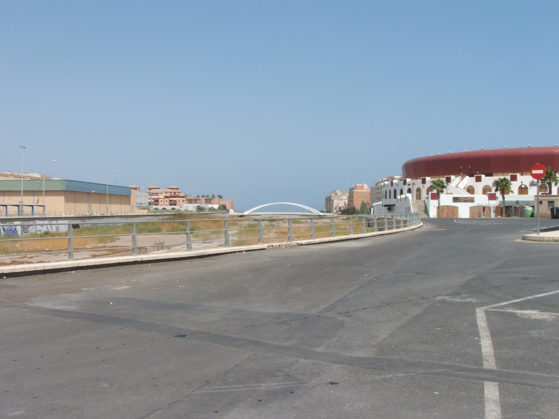 The El Cañuelo Bridge, in Roquetas de Mar, Almería (Spain), with the bullring near it.